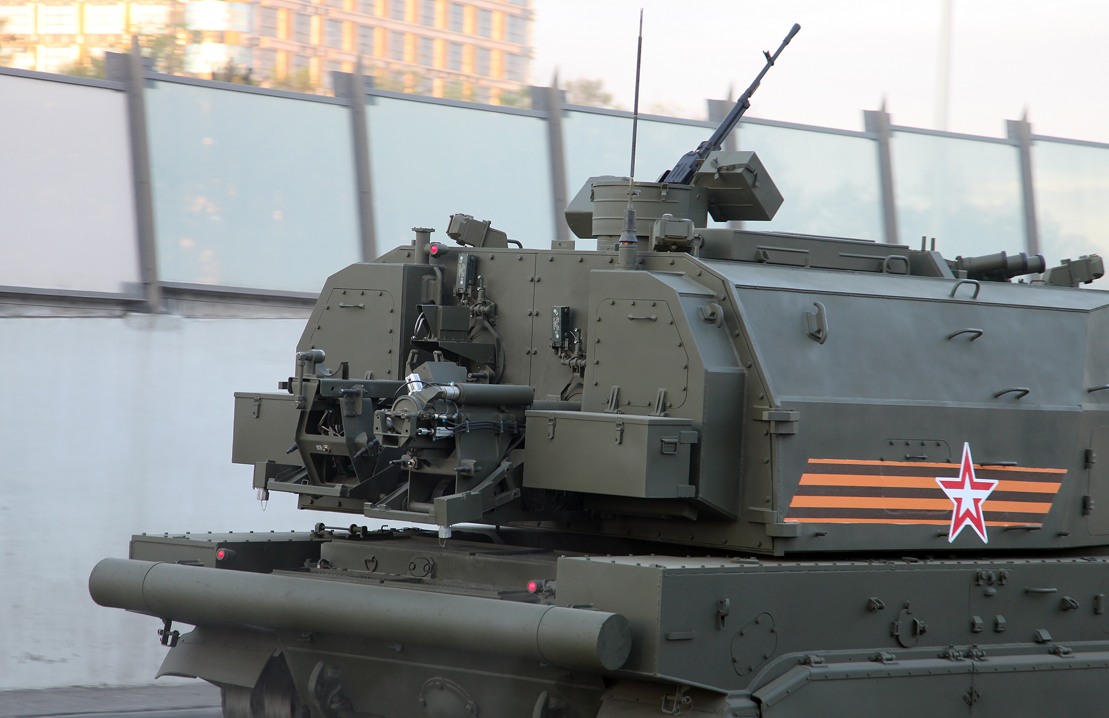 152mm self-propelled gun 2S35 Koalitsiya-SV